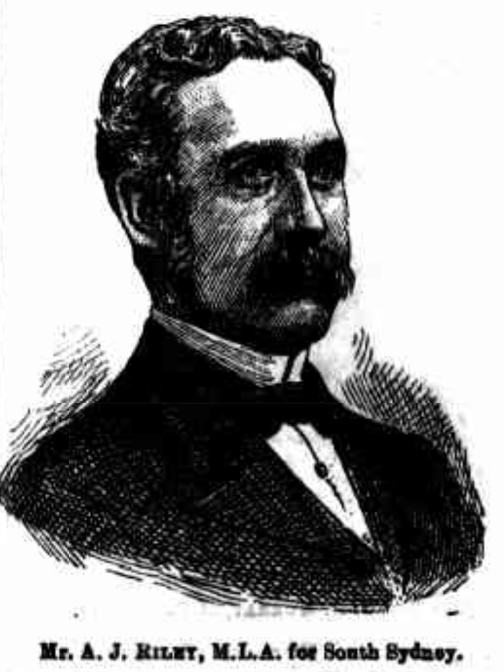 Alban Joseph Riley, newly elected Member of the New South Wales Legislative Assembly for South Sydney, 1887